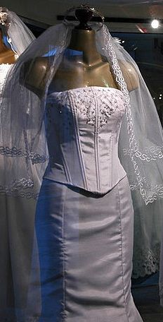 Wedding dress close up with princess seams design.